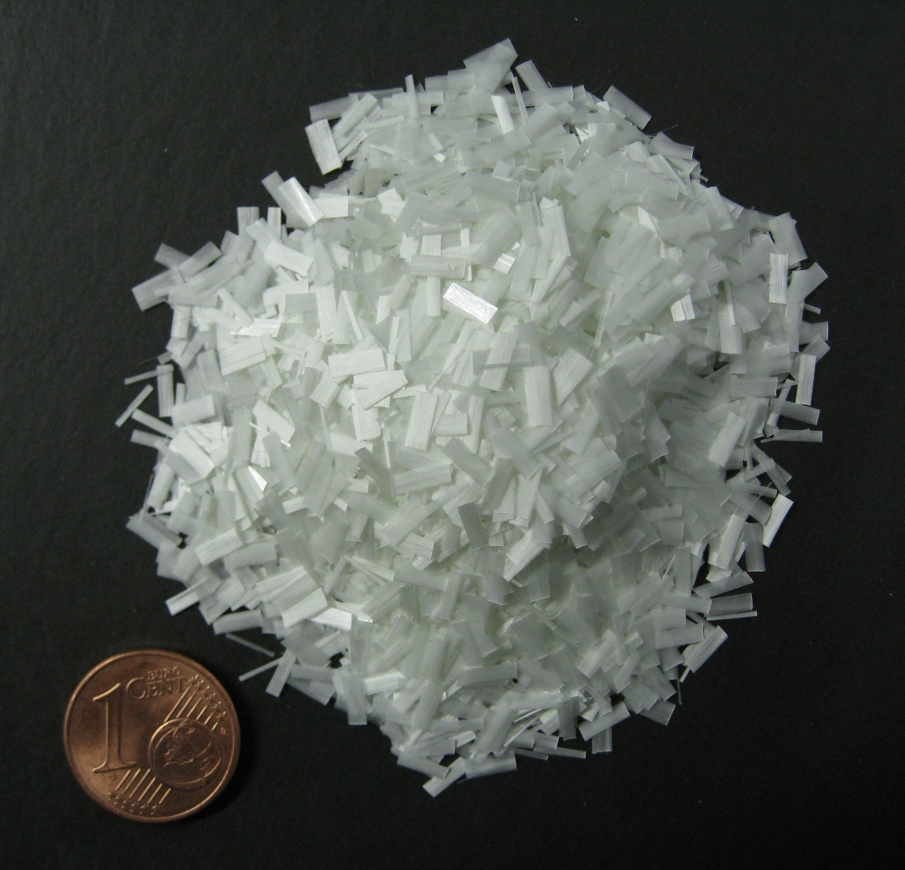 Chopped strands of glass (length 5 mm) used to reinforce thermoplastic or thermoset resins and composite materials.